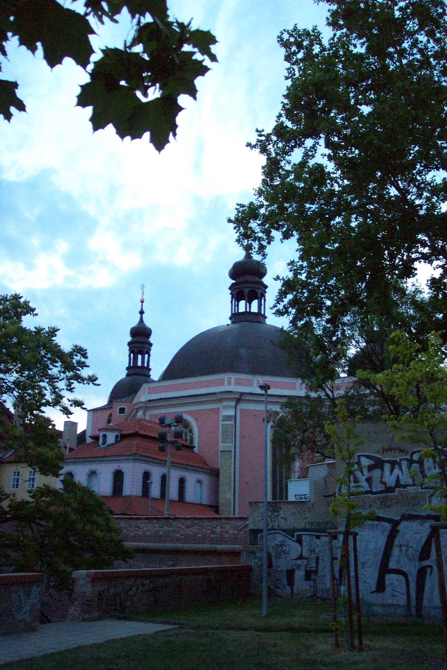 kostel Panny Marie a svatého Karla Velikého na Karlově - The Church of Virgin Mary and saint Charles the Great on Karlov, Prague